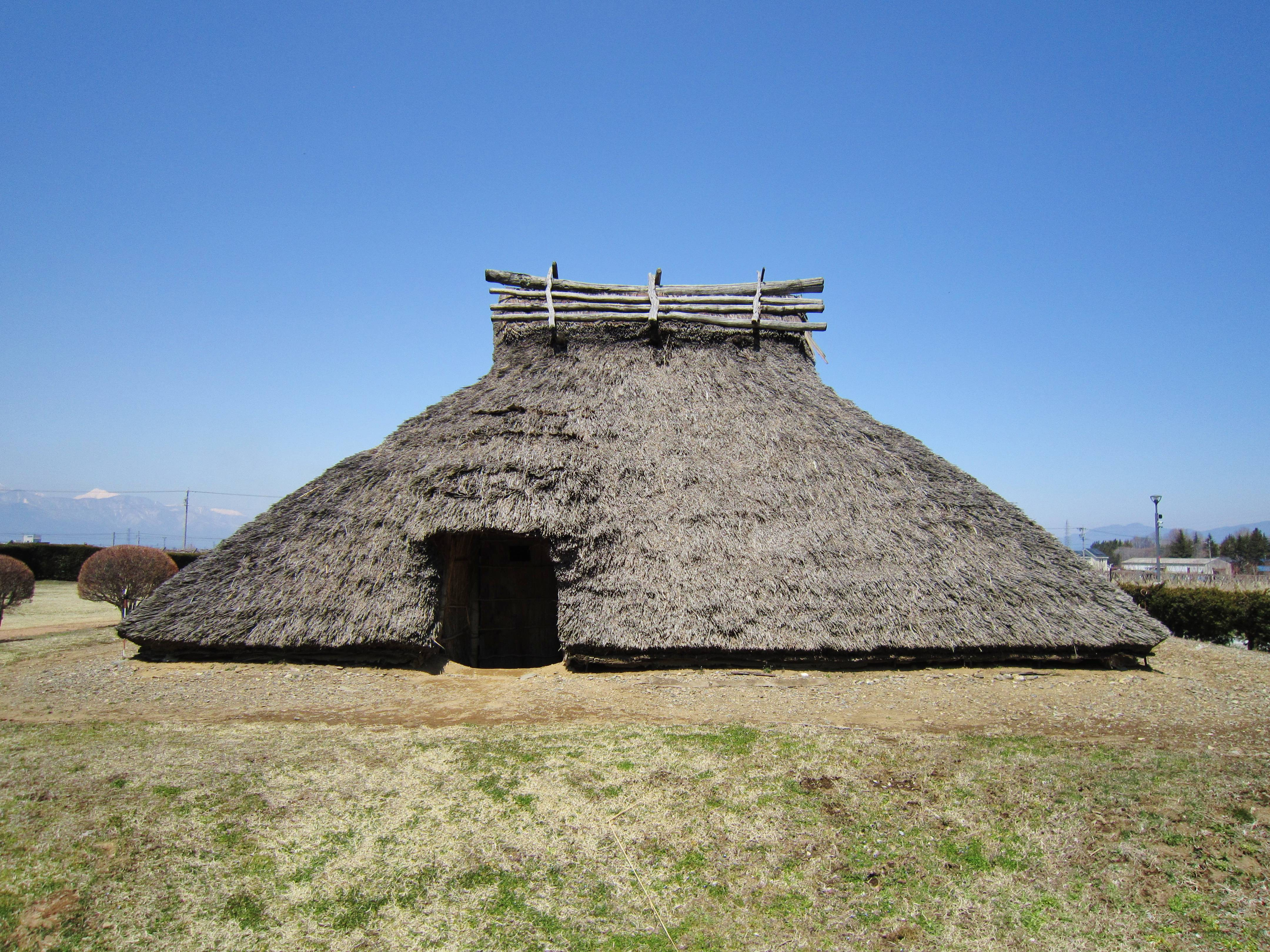 Hira-ide Historic Site Park reconstructed Kofun period (600 AD) houses.